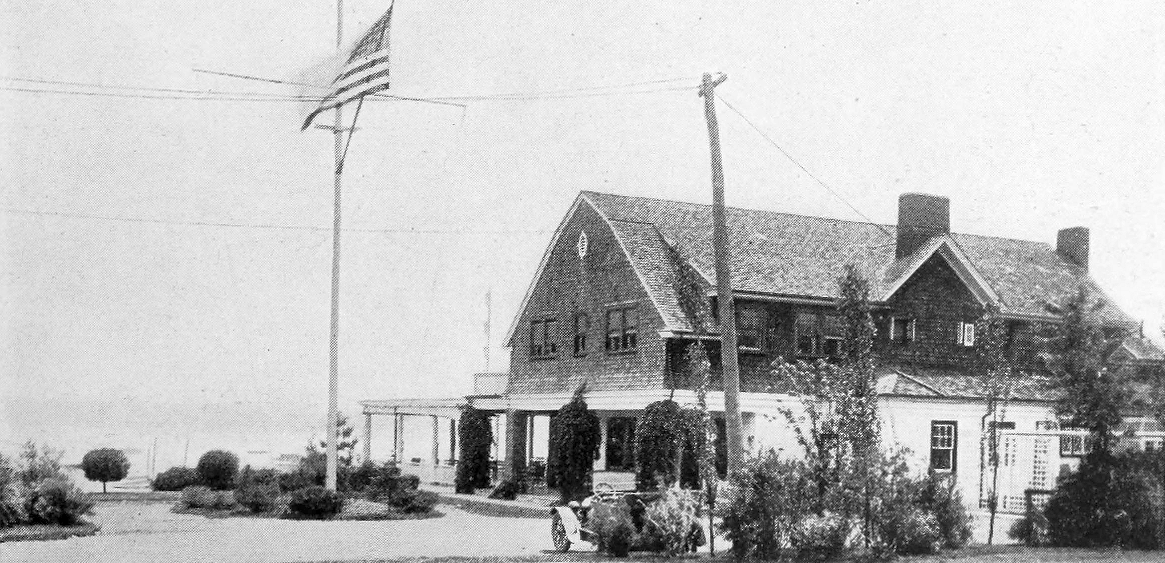 Bayside Yacht Club on Little Neck Bay, Bayside, Queens. Identifier: illustratedflush00rich Title: Illustrated Flushing and vicinity : College Point, Broadway-Flushing, Malba-on-the-Sound, Whitestone, Bayside, Douglaston, Little Neck in the third wa Year: 1917 (1910s) Authors: Richardson, Darby. Subjects: Publisher: [Flushing, N.Y.] : Darby Richardson Text Appearing Before Image: ' Text Appearing After Image: Bayside Yacht Club—Little Neck Bay 63 FLUSHING AND VICINITY This property will accommodate an 18-hole course and a 27 ifnecessary. Another holding of 60 acres is ideal for a limited member-ship playing 9-hole golf. Both are 30 minutes from Pennsylvania Station, within the limitsof Greater New York. The undersigned will match dollar for dollarany golf-country club propostion to utilize the property in the FlushingDistrict which is offered for that purpose. Remember that New York City suburban land increases in valueeach year. Your principal is not only safe beyond a doubt, but beyond a doubt,also, the yearly increase in value of the land will amount to much morethan ordinary interest return on the investment. In addition, all carry-ing charges should be met by the plan which has been evolved by theundersigned and which will be explained in detail at a personal inter-view. HALLERAN AGENCY, Real Estate—Insurance—Mortgages—LoansAuctioneers—Expert Appraisers. 63 Broadway Telephon